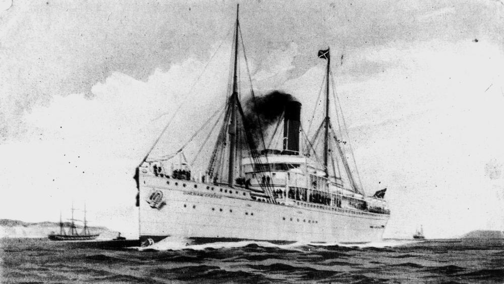 Durham Castle (ship)